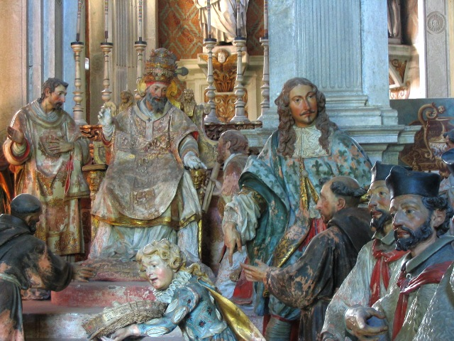 The Sacro Monte of Orta (Novara, Italy). Dionigi Bussola (1615? – 1687), Statues of the chapel XX. Author of the photo = M. Gabriele. Derived by it.wikipedia